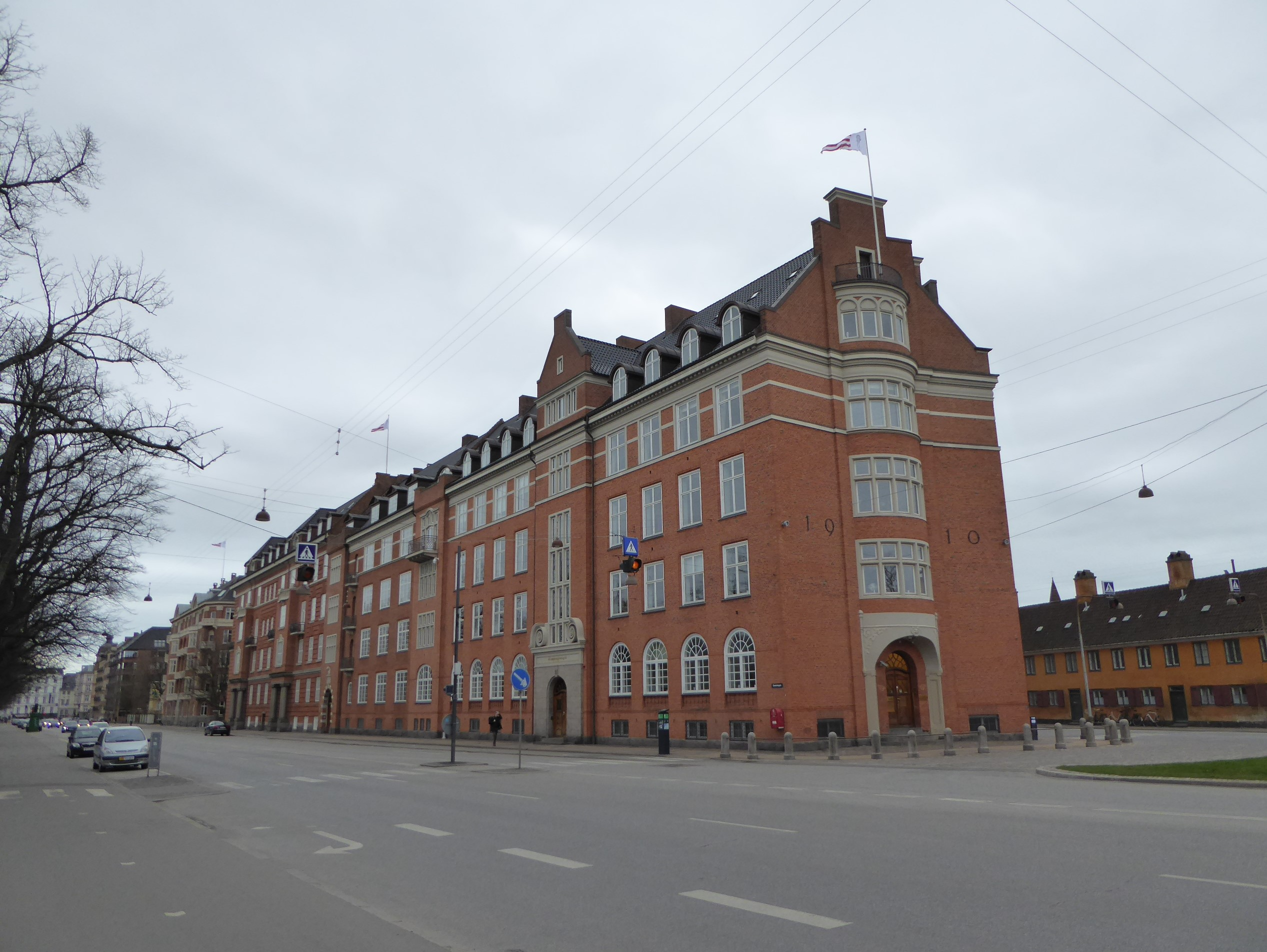 The street Grønningen in Indre By in Copenhagen.